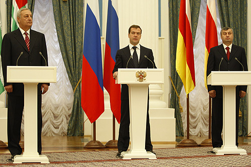 THE KREMLIN, MOSCOW. With President of Abkhazia Sergei Bagapsh (on the left) and President of South Ossetia Eduard Kokoity.